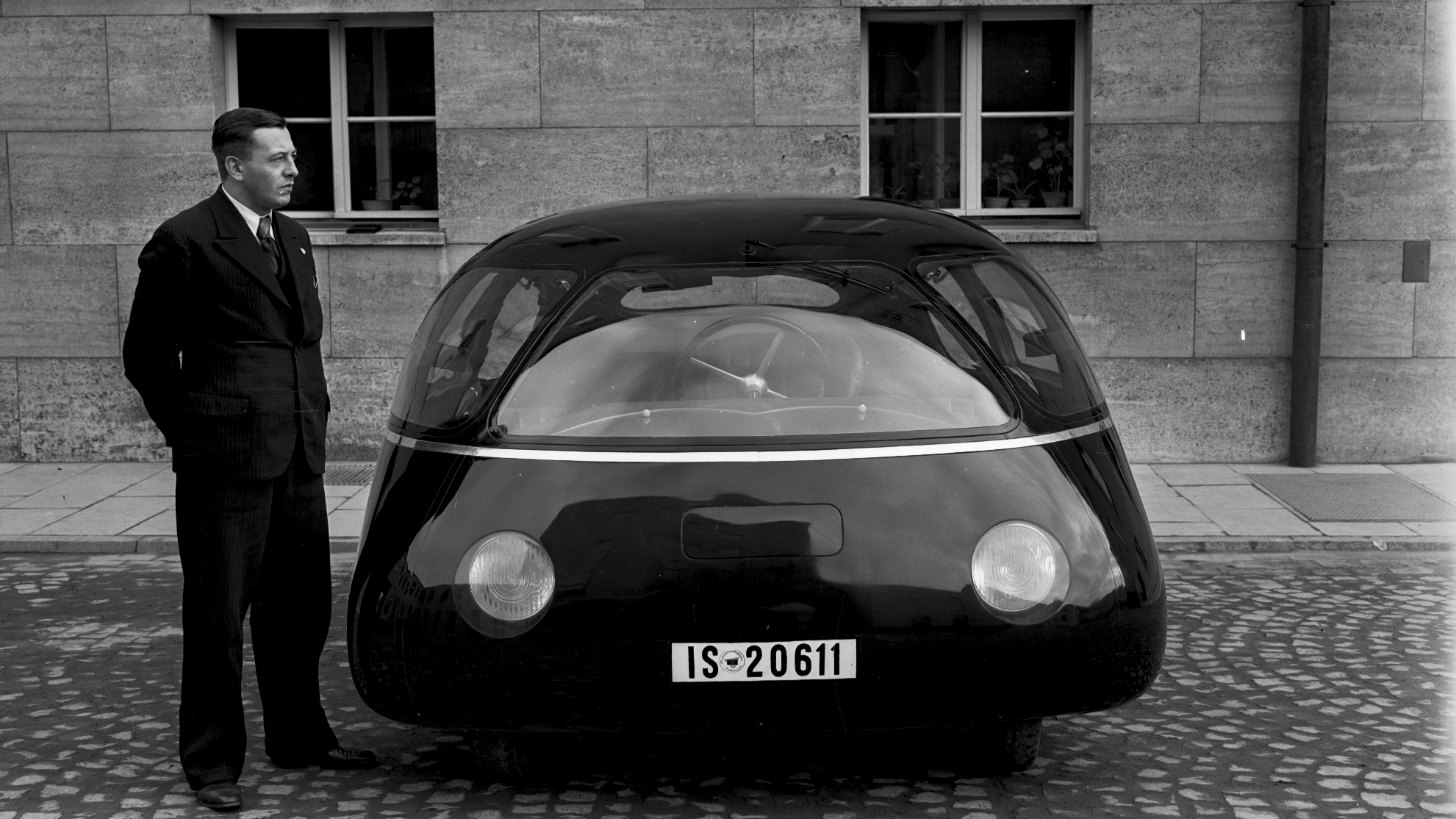 Schlörwagen from the front The Schlörwagen was an experimental vehicle that caused quite a stir in 1939. Its aerodynamic performance, expressed as its drag coefficient (Cd value), was a mere 0.186 and therefore a real sensation. Subsequent measurements that Volkswagen conducted on a model during the 1970s confirmed the Schlörwagen's Cd of just 0.15. Modern cars possess Cd values of between 0.24 and 0.3 and therefore do not come close to the Schlörwagen's perfectly tailored aerodynamic shape. Only modern experimental vehicles such as the Volkswagen '1-litre car' or the ETH Zürich ‘PAC-Car II’ have lower Cd values.